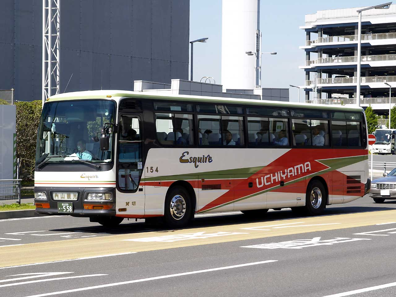 Fleet of Uchiyama Kanko Bus. Model: Isuzu Gala KL-LV781R2(?) LIcensew plate: TKA200KA-558 Place: Tokyo International Airport